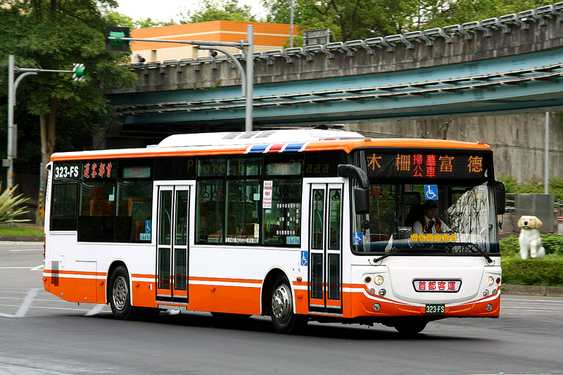 CapitalBus Graveyard-Zoo Shuttle Bus 323FS Foton BJ6123 中文（台灣）: 首都客運 掃墓公車動物園線 323-FS Foton BJ6123